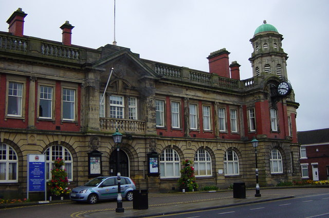 Wallsend Town Hall, the seat of North Tyneside Council, in Wallsend, Tyne and Wear, England.